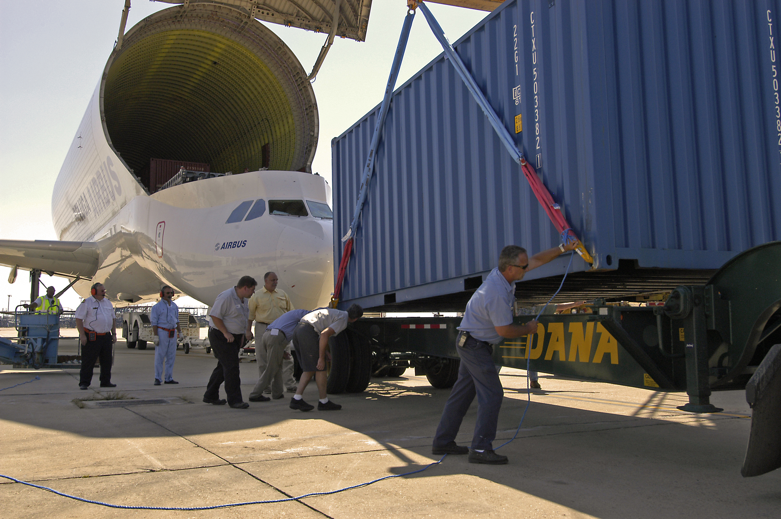 Mobile, Mobile County, Al 9-9-05 Airbus, EADS North America, and their partner FedEx support Hurricane Katrina relief efforts by transporting 22 tons of supplies from France and the United Kingdom. Hundreds of thousands of people have been displaced by Hurricane Katrina and need food, housing, and jobs. MARVIN NAUMAN/FEMA photo